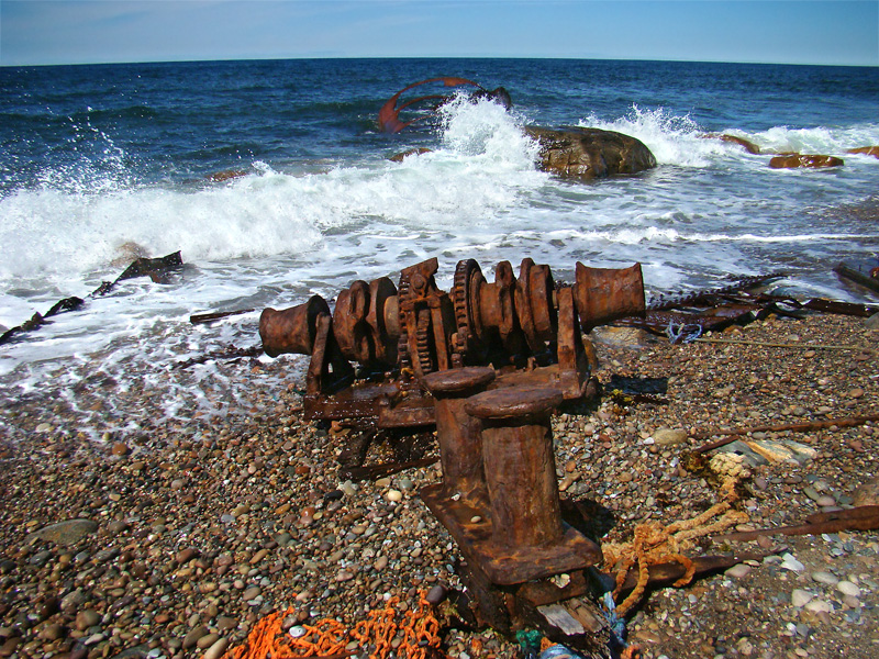 Gros Morne National Park, Western Newfoundland, Canada. S.S. Ethie day use area. The wreck of a sunken ship can be seen on the beach, overlooking the Gulf of St. Lawrence.